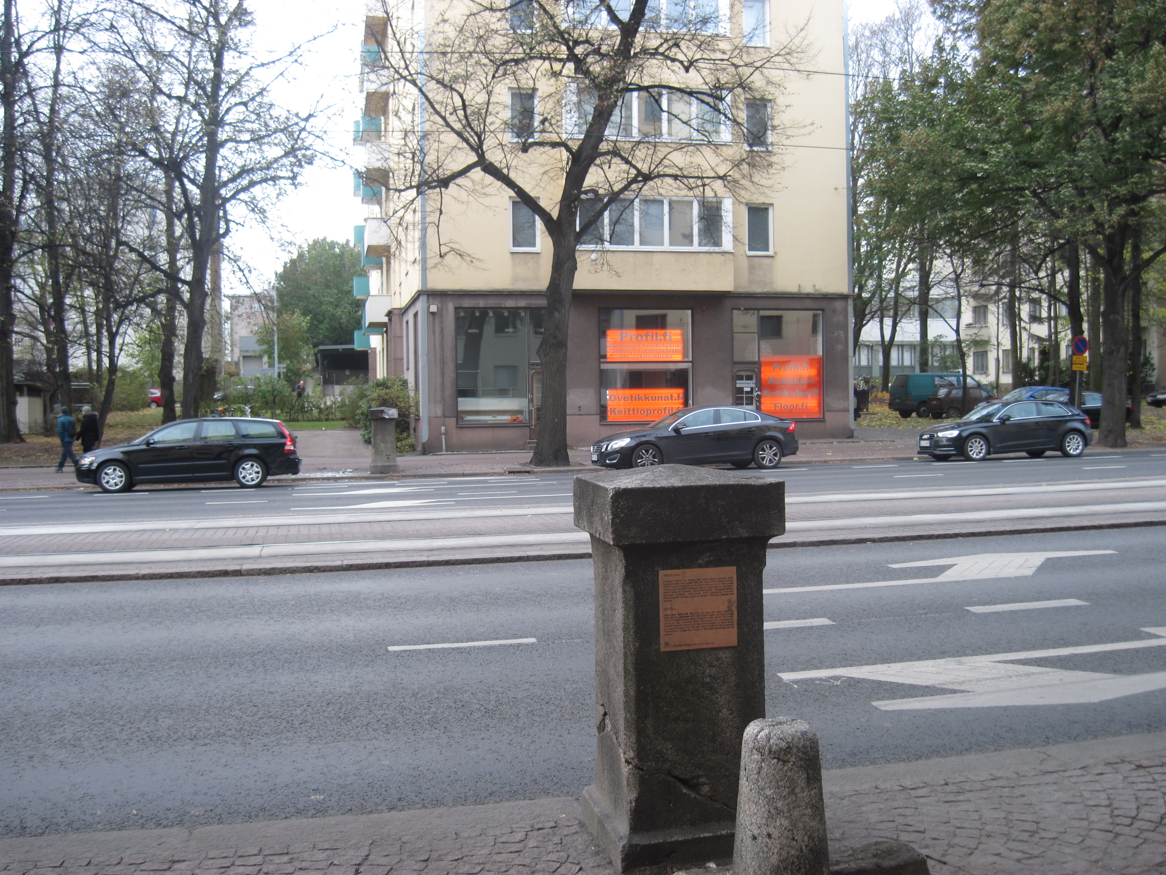 Pillars of an ancient toll bar at Töölön Tulli on Mannerheimintie, Helsinki, Finland